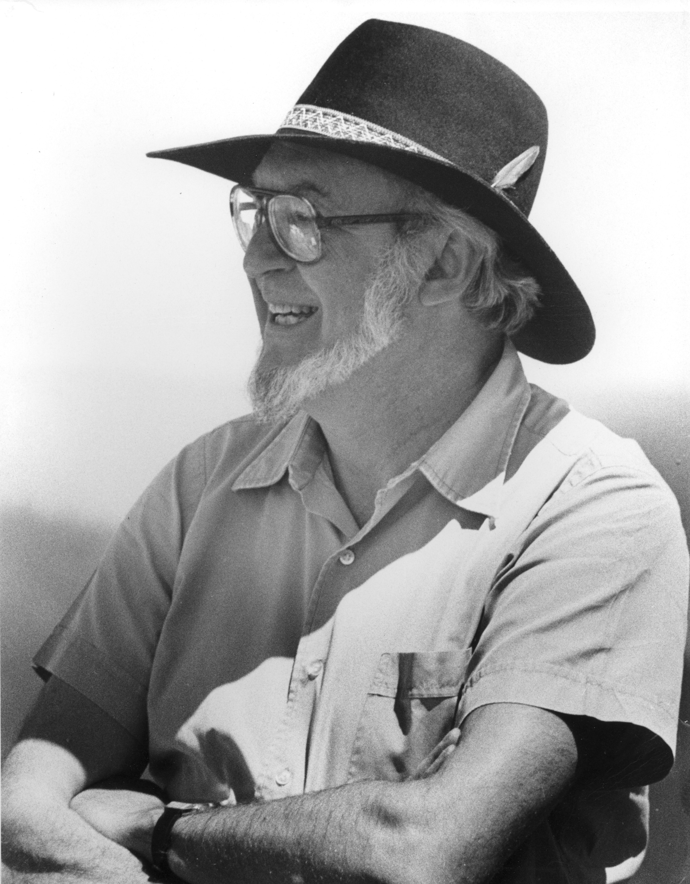 This photo was taken during a visit to a solar energy installation in the Southwestern US.